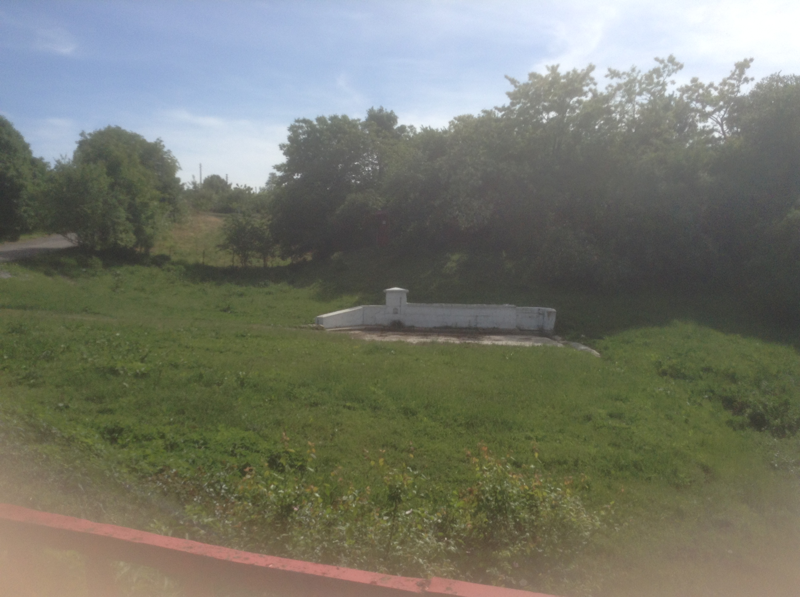 Water source in village of Zvegor, Bulgaria